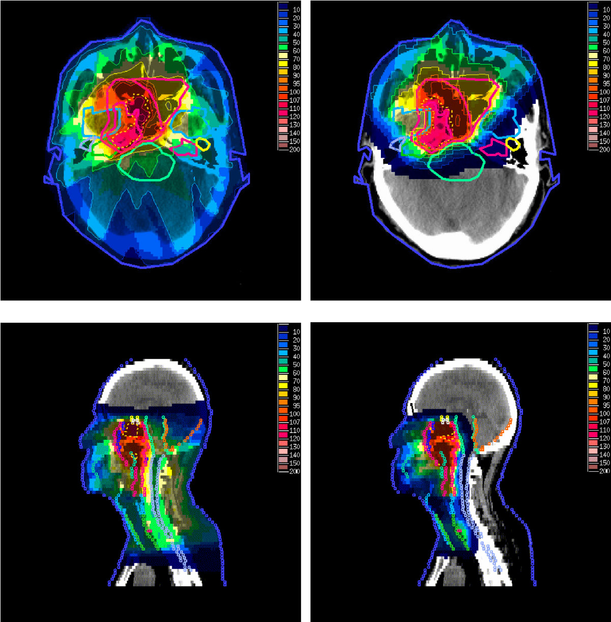 Comparison of dose distributions between IMPT (right) and IMRT (left) plans in T4N1M0 NPC in axial (above) and sagittal (below) views. Dotted lines denote 95% of the prescribed dose to GTV-T.